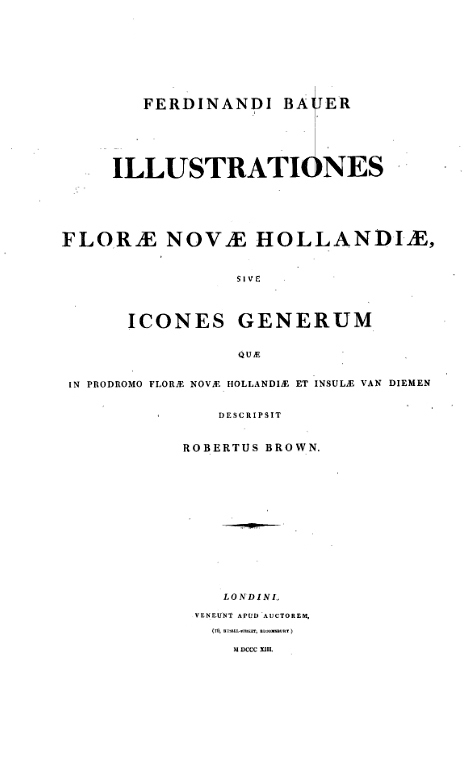 This is an image of the frontispiece of Ferdinand Bauer's 19th century book Illustrationes Florae Novae Hollandiae